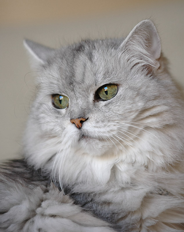 Shaded Silver Doll Faced Persian named Kemra